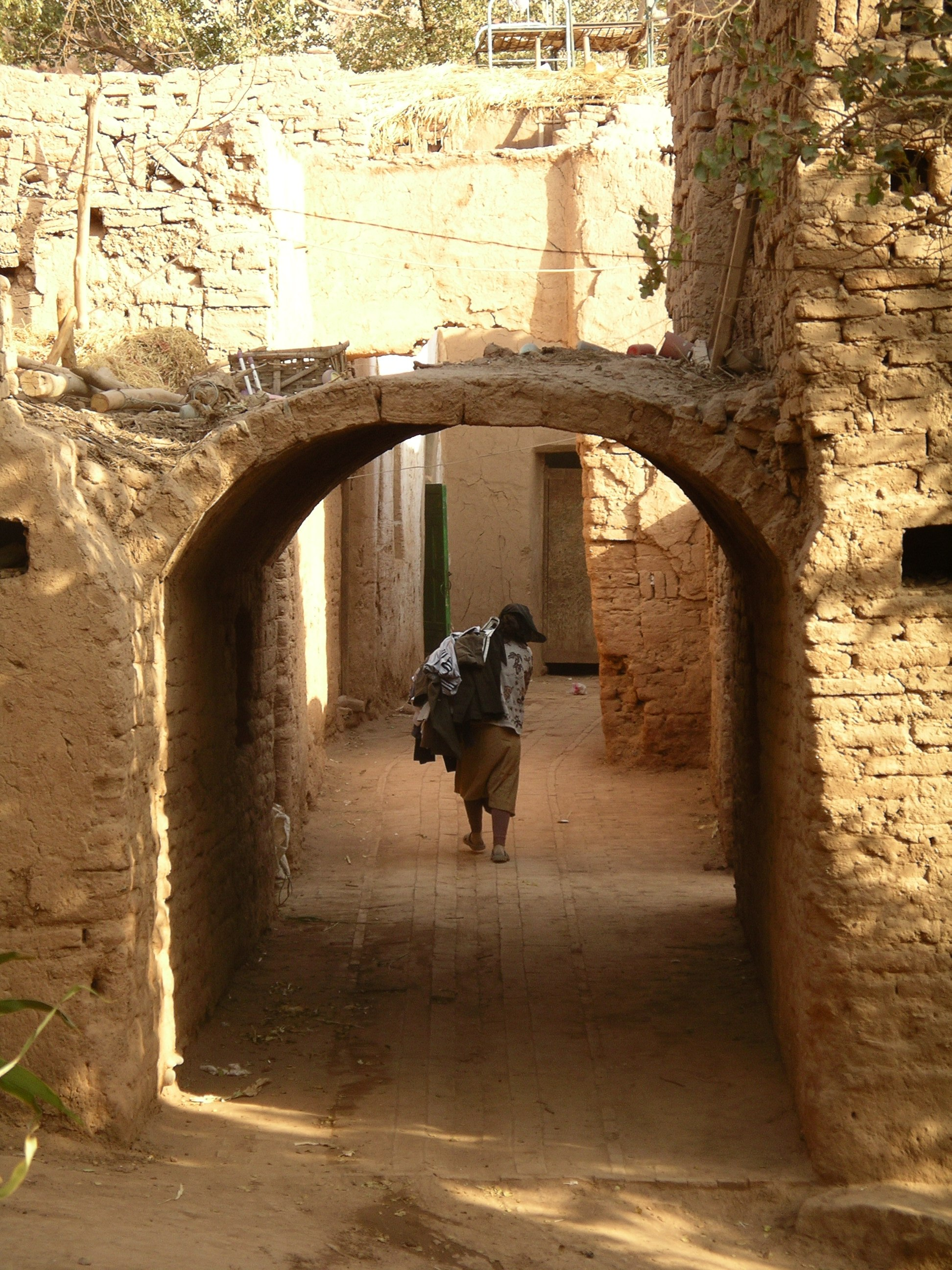 Streets of Tuyoq (near Turpan), Xinjiang, China